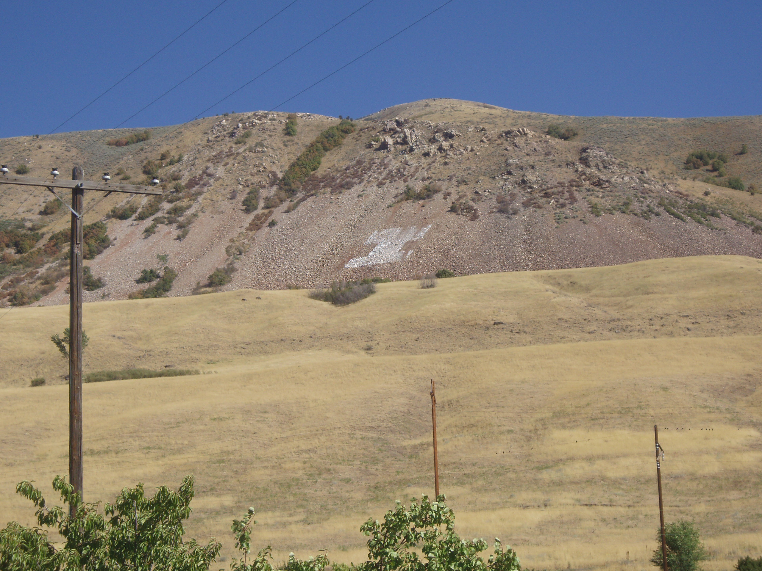 The letter I on the mountainside over Brigham City, Utah, United States, stands for the former Intermountain Indian School.